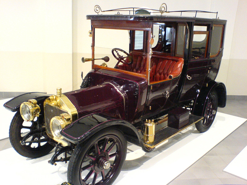 Make: Wolseley Model: 12/16 Limousine Year: 1910 Spent the long weeeknd up in Franschhoek. Spent most of Saturday afternoon drooling over this private collection of cars, at Franschhoeks Motor Museum, on the L'Ormarins Wine Estate